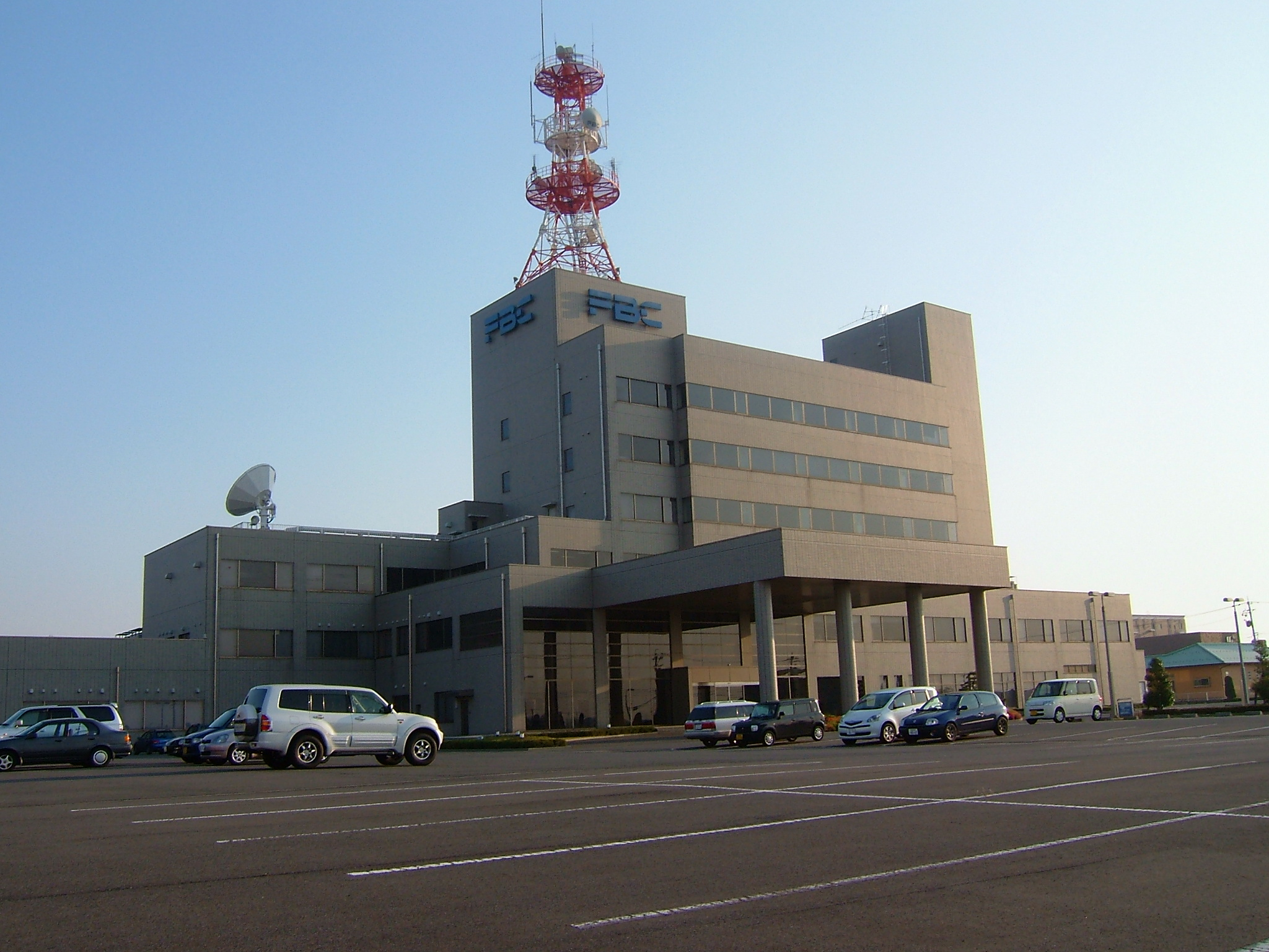 Fukui Broadcasting Corporation Headquater in Fukui, Fukui